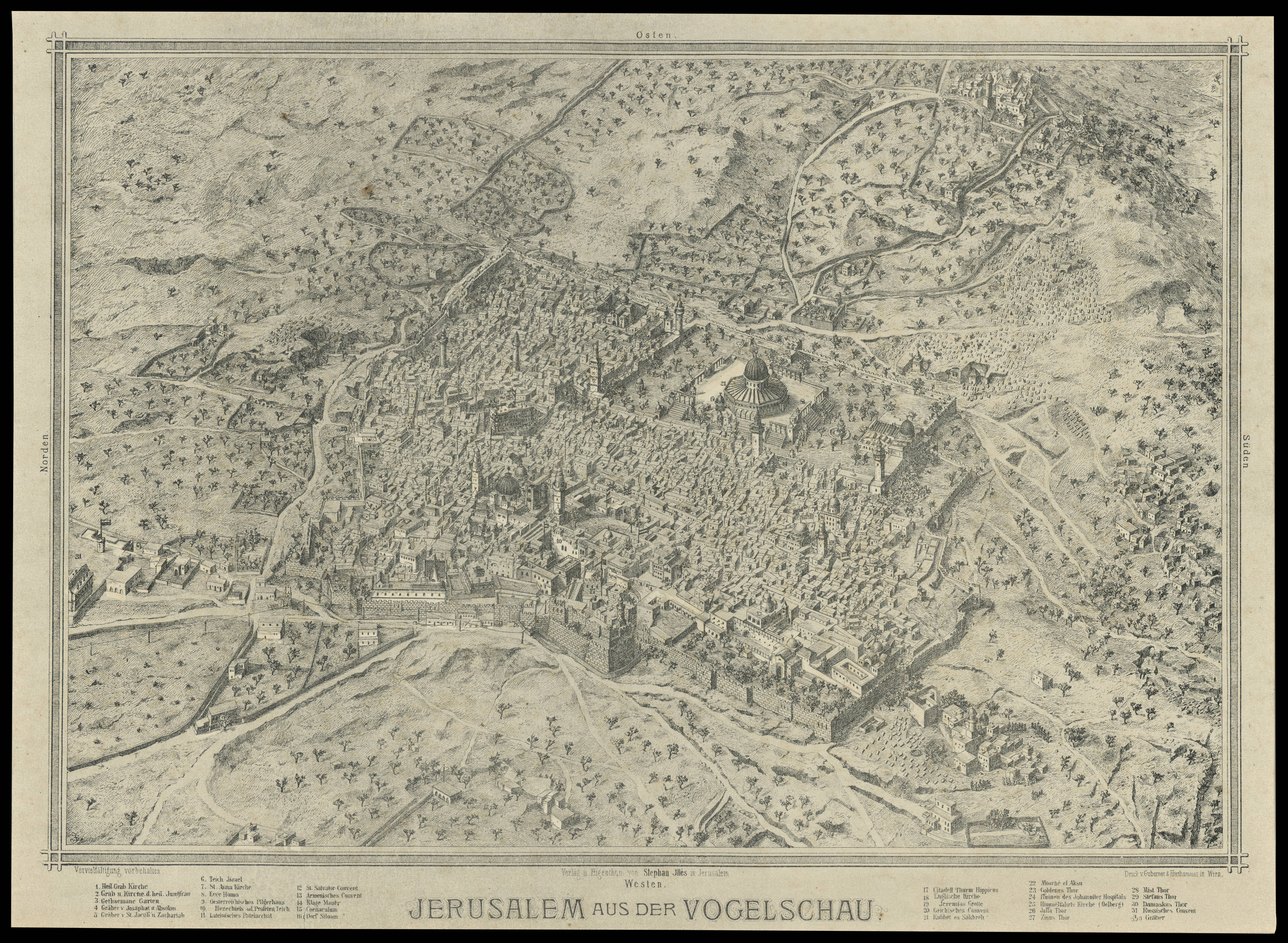 3d Map of Jerusalem, Stephen Illes